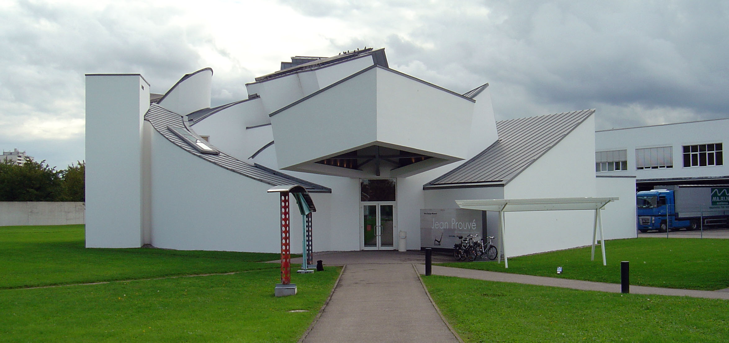 Vitra Design Museum building by Frank O. Gehry, Weil am Rhein, Germany. In the background, part of the factory building also by Gehry is visible.